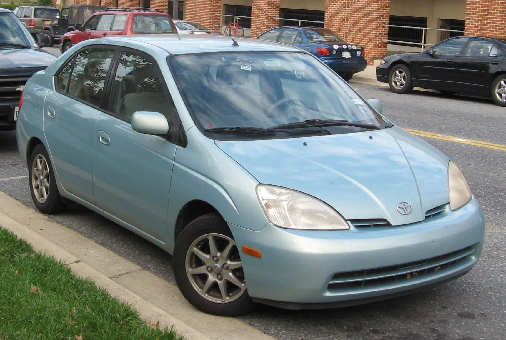 2000-2003 Toyota Prius photographed in College Park, Maryland, USA.